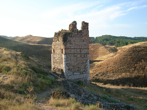 Tower of old castle of Alcalá la Vieja. Alcalá de Henares, Community of Madrid, Spain.